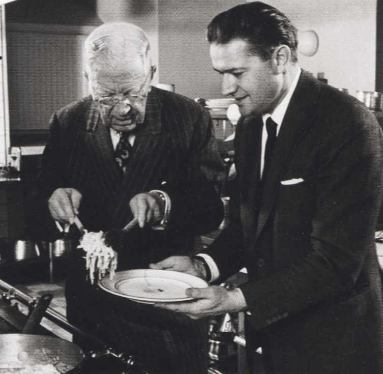 Gustav VI Adolf and photographer Lennart Nilsson in the mid-1960s